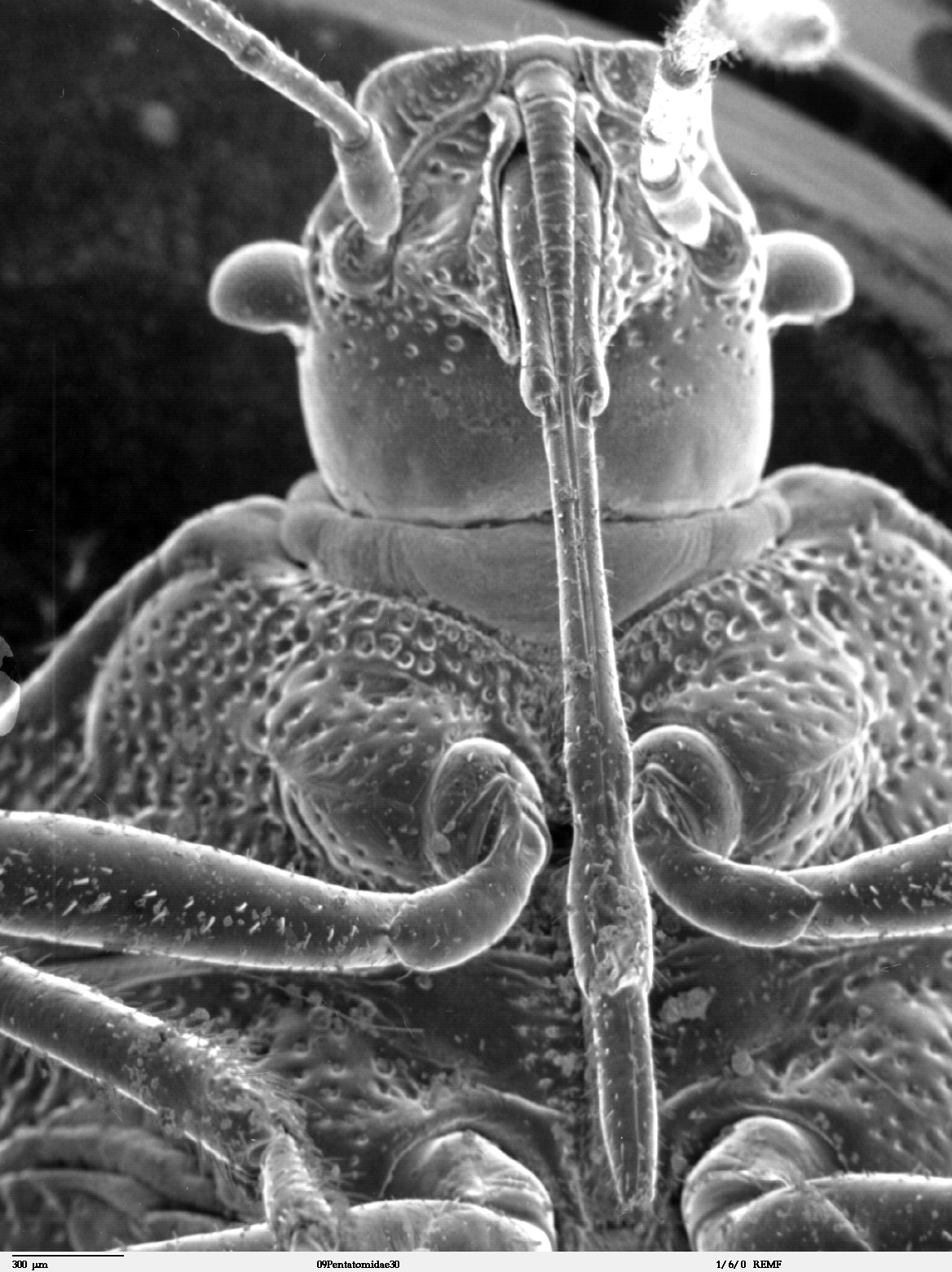 Mouthparts of a Pentatomid bug